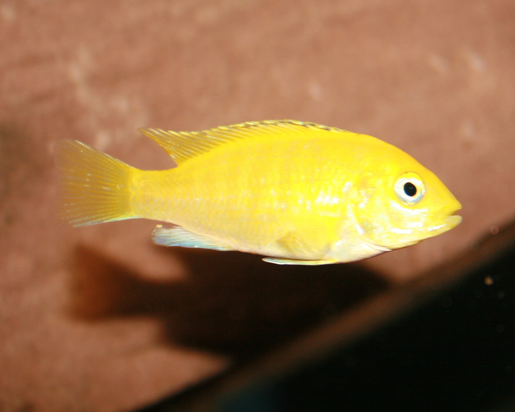 The copyright holder of this file, Steven Viemeister - rtisbtue, allows anyone to use it for any purpose, provided that the copyright holder is properly attributed. Redistribution, derivative work, commercial use, and all other use is permitted.Attribution: Steven Viemeister - rtisbtue Category:Cichlid images